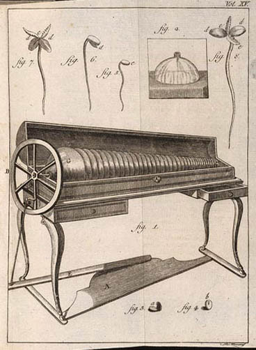 Benjamin Franklin's glass harmonica in an italian publication. LoC notes: Before leaving London in July 1762, Franklin wrote to the Italian philosopher Giambatista Beccaria. Not having anything new to report on their shared interest in electricity, Franklin described the improvements he had made to the musical glasses invented by Richard Puckeridge. [...] LoC description: L'Armonica: Lettera del Signor Beniamino Franklin al Padre Giambatista Beccaria, Regio Professore di Fisica nell' Univ. di Torino. Page 2 [Milano?:1776?]